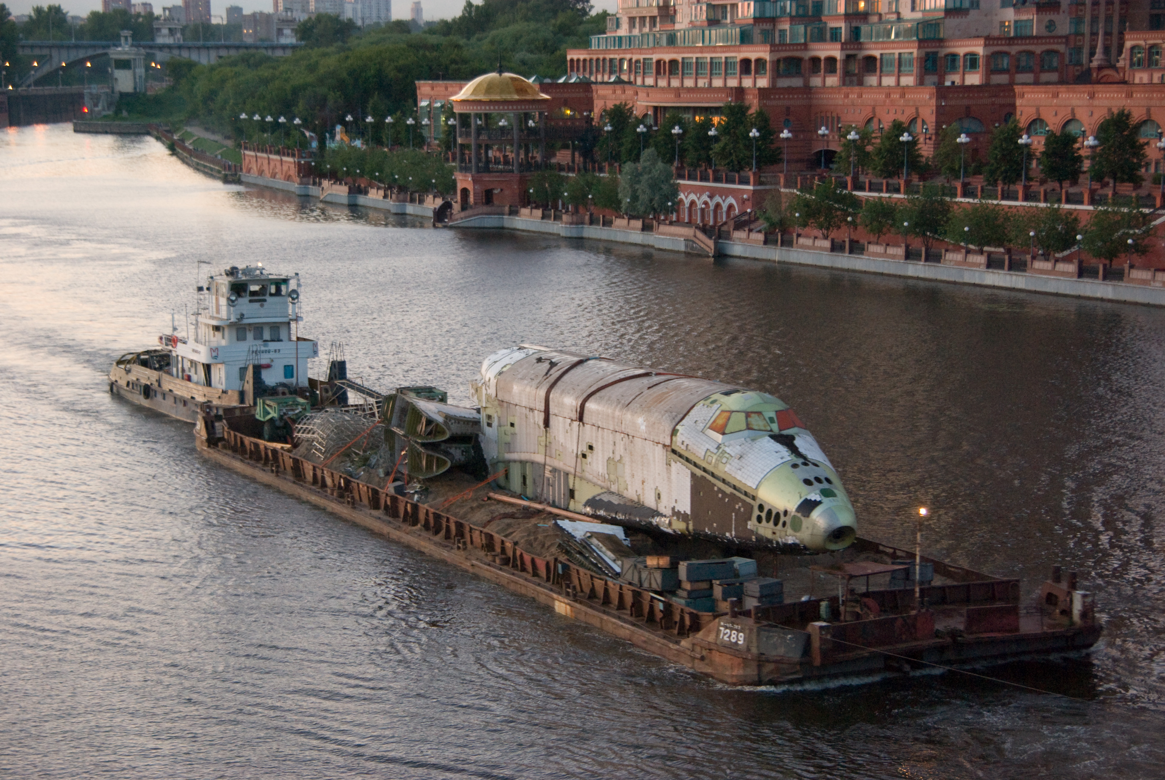 Transportation of body unfinished spaceship Buran 2.01 from mooring of Tushino plant to Ramenskoe airport. Moscow, Stroginskiy brige. Tugboats project 908 Rechnoy-40, Rechnoy-63, river barge proj.942 #7289